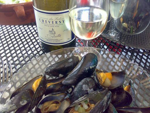 French wine from the Loire Valley made from mostly Sauvignon blanc.